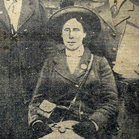 1916 march reported in 1916 newspaper. People are 1 Florence Gertrude de Fonblanque, 2 White 3 Stephenson 4 Richardson 5 Byham 6 Sarah Bennett 7 Nannie Brown (Agnes)